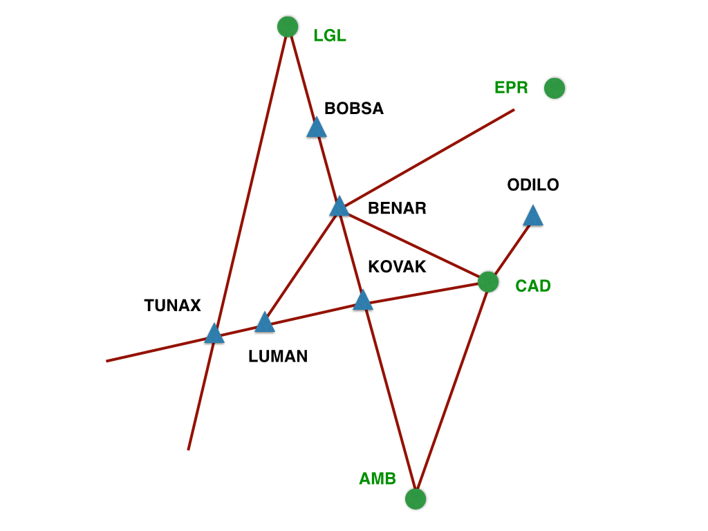 RNAV routes southwest of Paris (Orly, Toussus-le-Noble, Villacoublay airports)